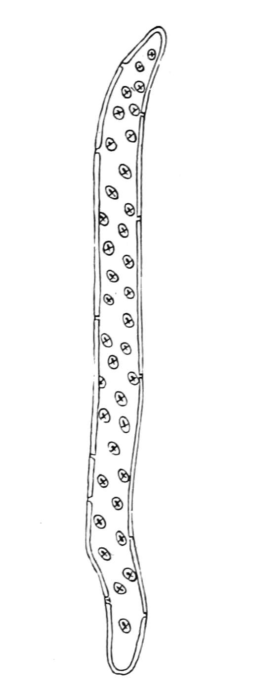 A tracheid of oak.